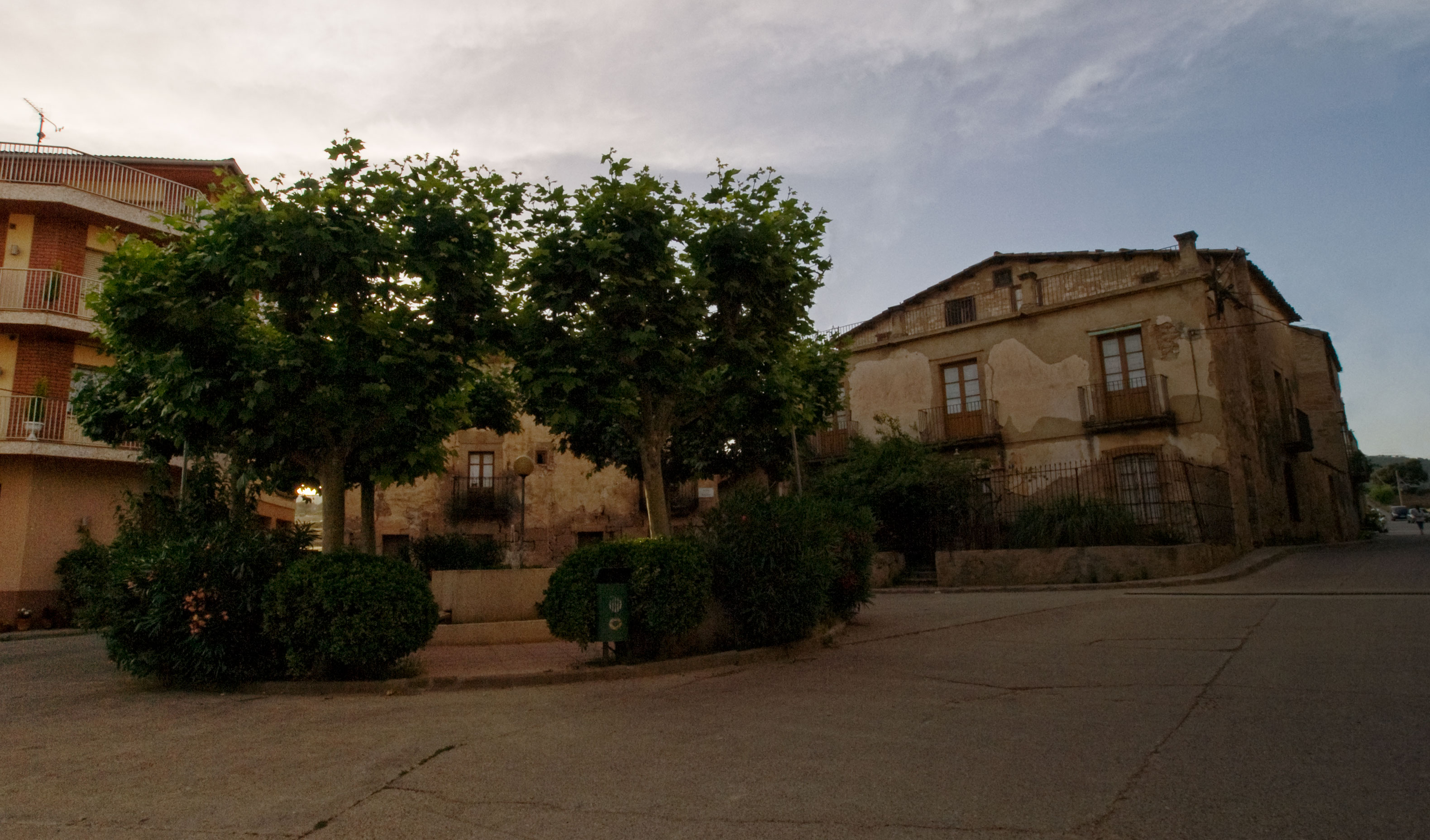 Fonollosa Central Square (Catalonia, Spain)